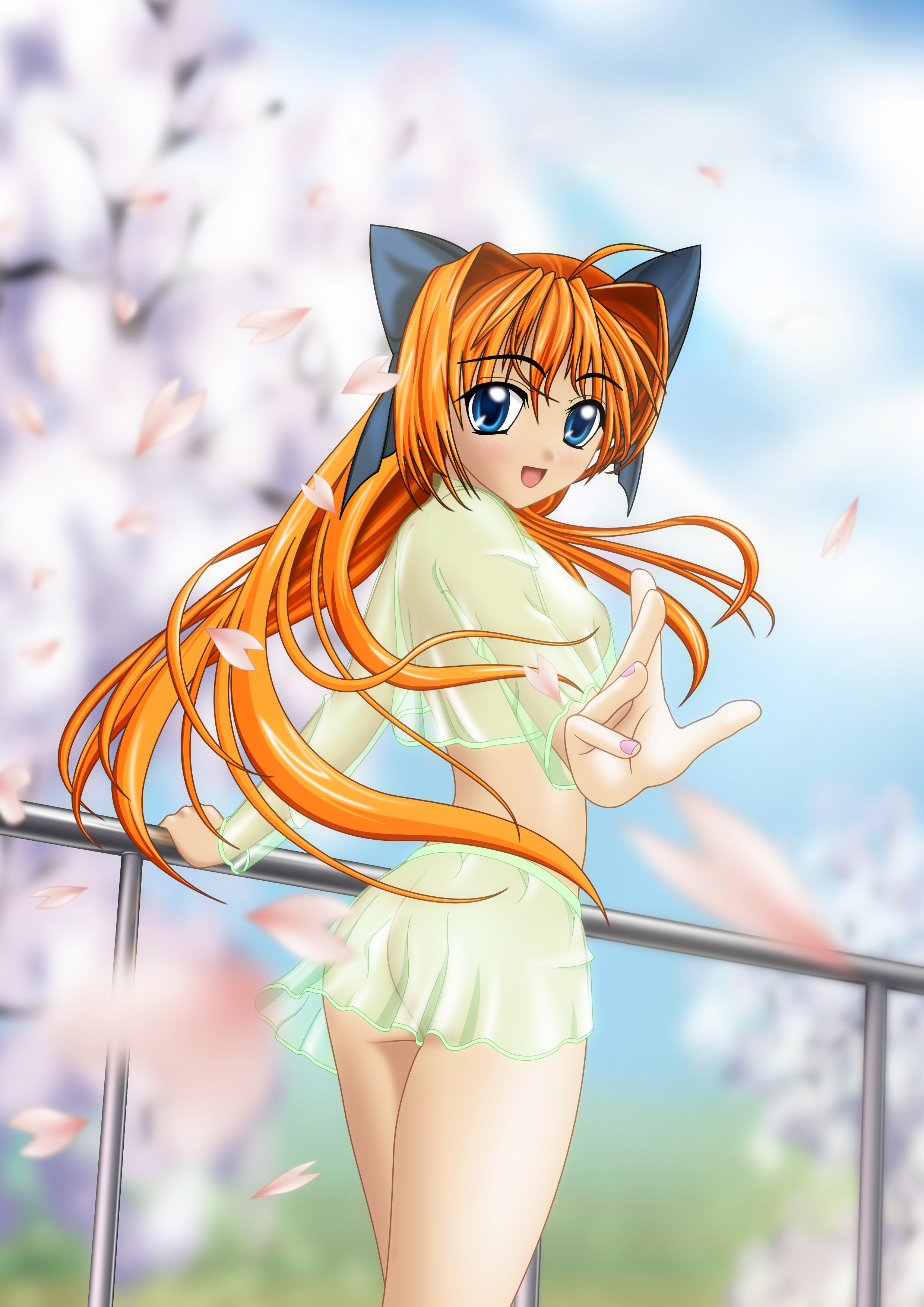 This is a drawing of female figure with typical elements from manga and anime to illustrate the term and genre ecchi. Regarding this topic the girl is drawn in a position that would enable it to leave out the clothes entirely without showing any primary sexual characteristics. The clothes itself are a partially transparent dress, which is as common as wet clothes. The background shows a blue sky with a blossom sakura tree, which is fairly often used motive in manga and anime.[1]In Japanese slang it denotes everything that can be seen as "dirty", "naughty", "frivolous" or "perverted". But the undertone is milder and not usually seen as insulting as the term "hentai". The term ecchi also denotes a fairly common genre/aspect of manga and anime which features (female) characters in tight, very short, nearly transparent, askew clothing, which is often seen as "rampant fan service". It doesn't show any sexual intercourse or primary sexual characteristics, but plays with suggestions − usually found in comedic Shōnen/Seinen manga, harem anime or bishōjo (美少女, literally "beautiful young girl") illustrations.The image itself was created with Inkscape, a vector graphics program which directly supports SVG as the native storage format, making it very easy to create variations of this image, since every part can be reused without loss of quality. Note that an PNG version is available since not all SVG renderers are capable to display the image correctly. librsvg, the current renderer of Wikimedia has some technical issues with thumbnails and filters, which hopefully will be fixed in future.